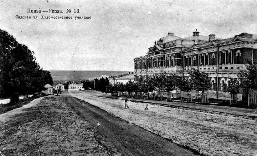 Penza Art College in Russia